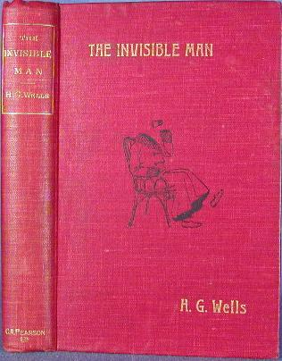 First edition cover of The Invisible Man by H. G. Wells (London: Pearson, 1897).